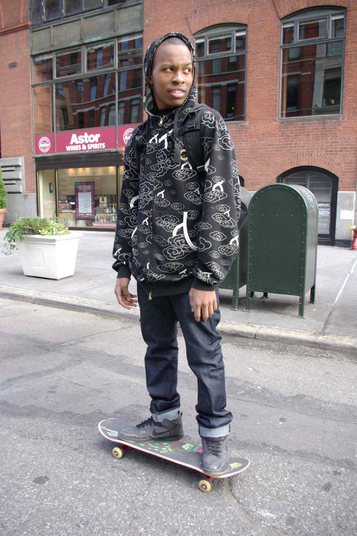 This photo is of Wikis Take Manhattan goal code S18, Skateboarding.